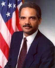 A photo of former Deputy Attorney General (1997-2001) and Acting Attorney General (2001) Eric Holder.